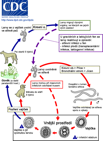 Toxocara canis life cycle in Czech language (translated by Flukeman)